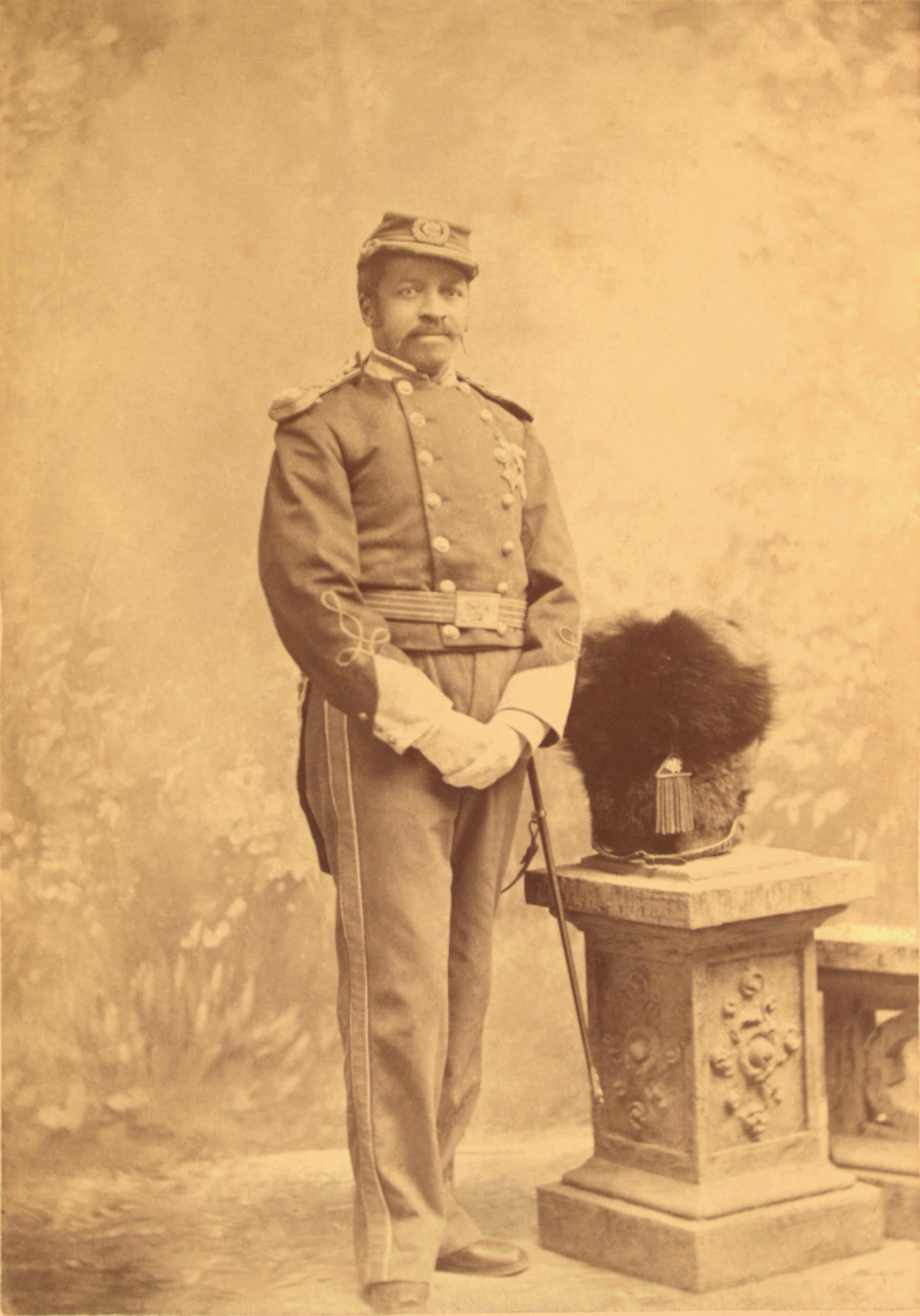 Sgt. Major Christain Fleetwood, Medal of Honor recipient in the American Civil War for having "Saved the regimental colors after eleven of the twelve color guards had been shot down around it." Sgt. Major was the top rank allowed to a coloured soldier at that time.